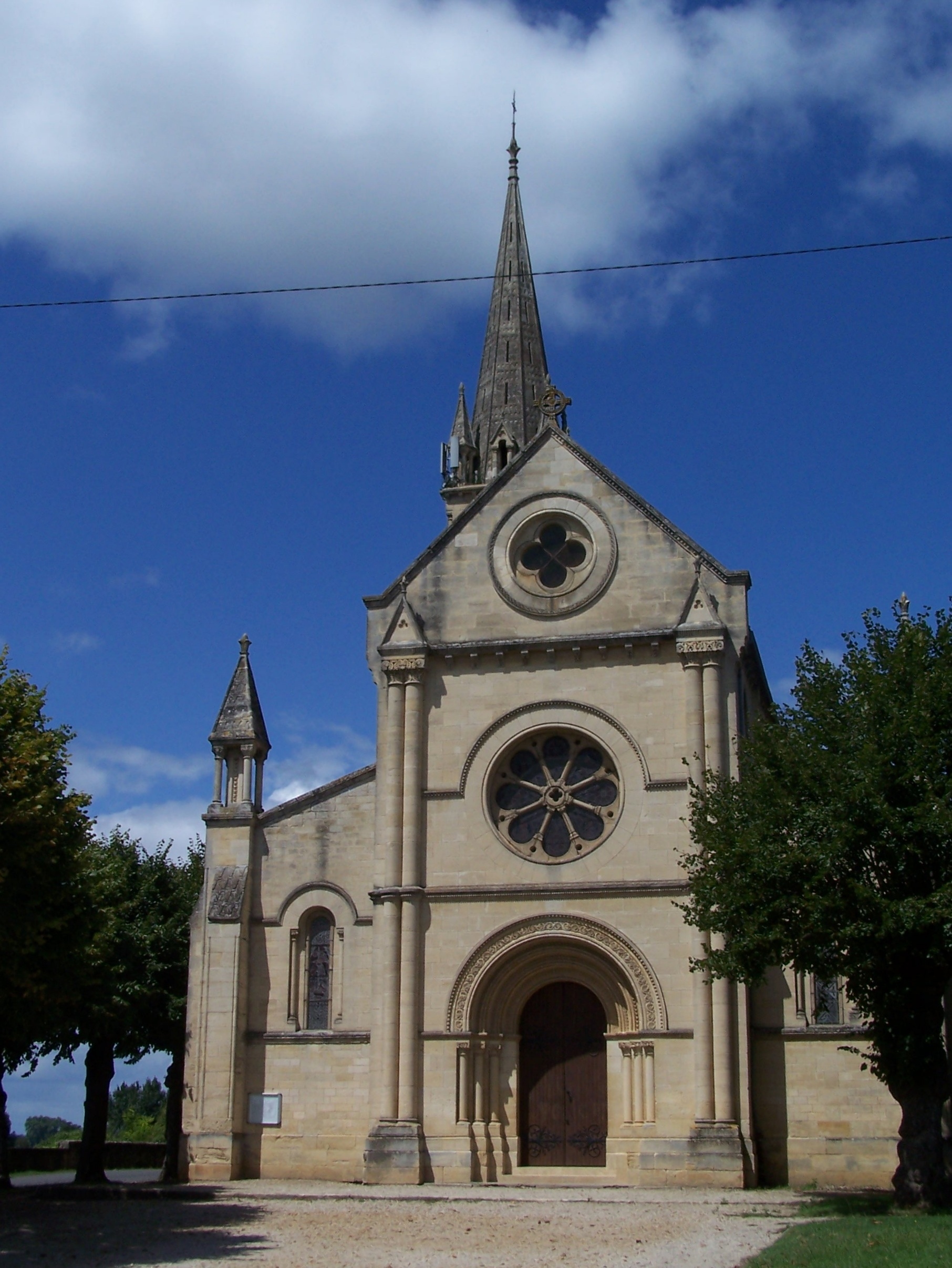 Saint Saturnin church of Béguey (Gironde, France)